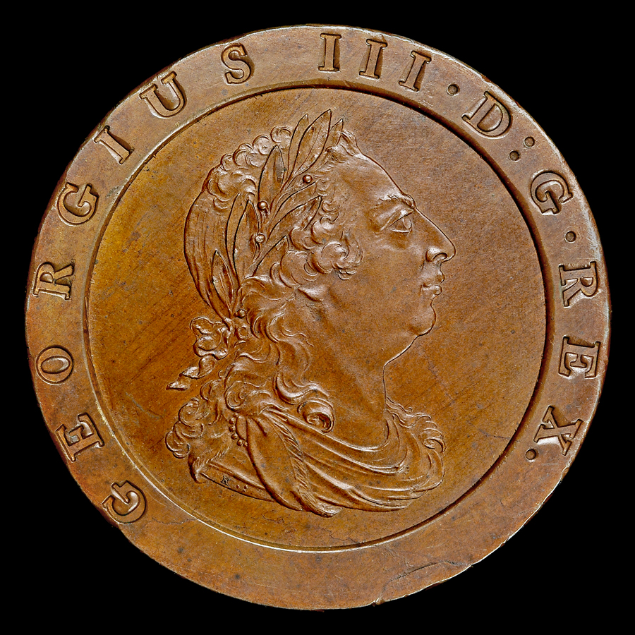 Obverse side of 1797 King George III 'cartwheel' two penny coin, (also called a two pence, a twopence, or a tuppence.)